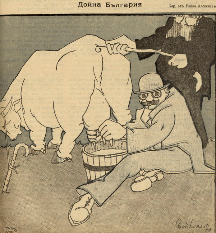 Rayko Aleksiev caricature